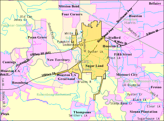 Map of Sugar Land, Texas